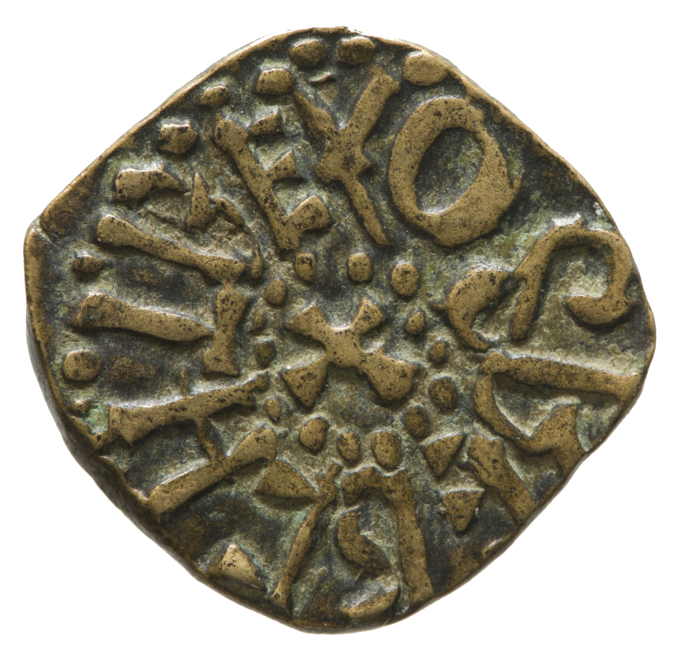 Obverse (front) of a copper alloy styca of Osberht Cross surrounded by ring of pellets.